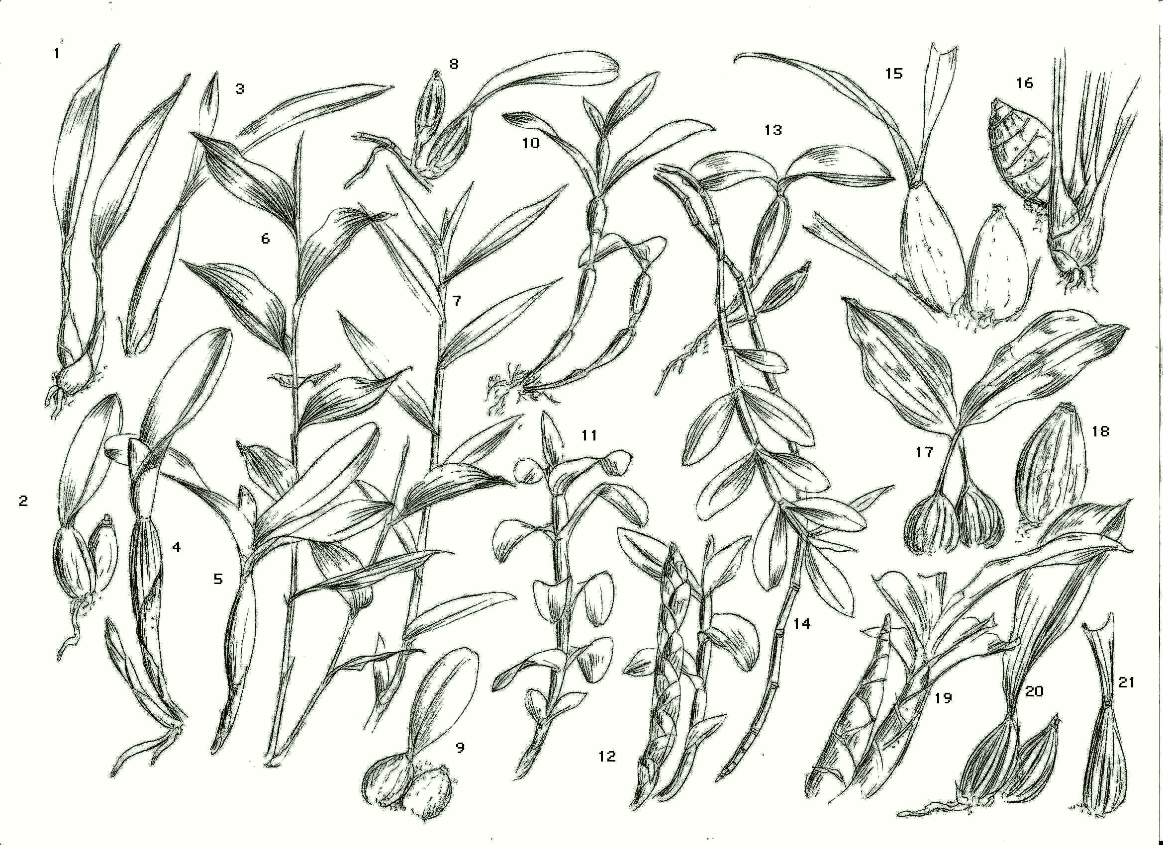 Pseudobulbs